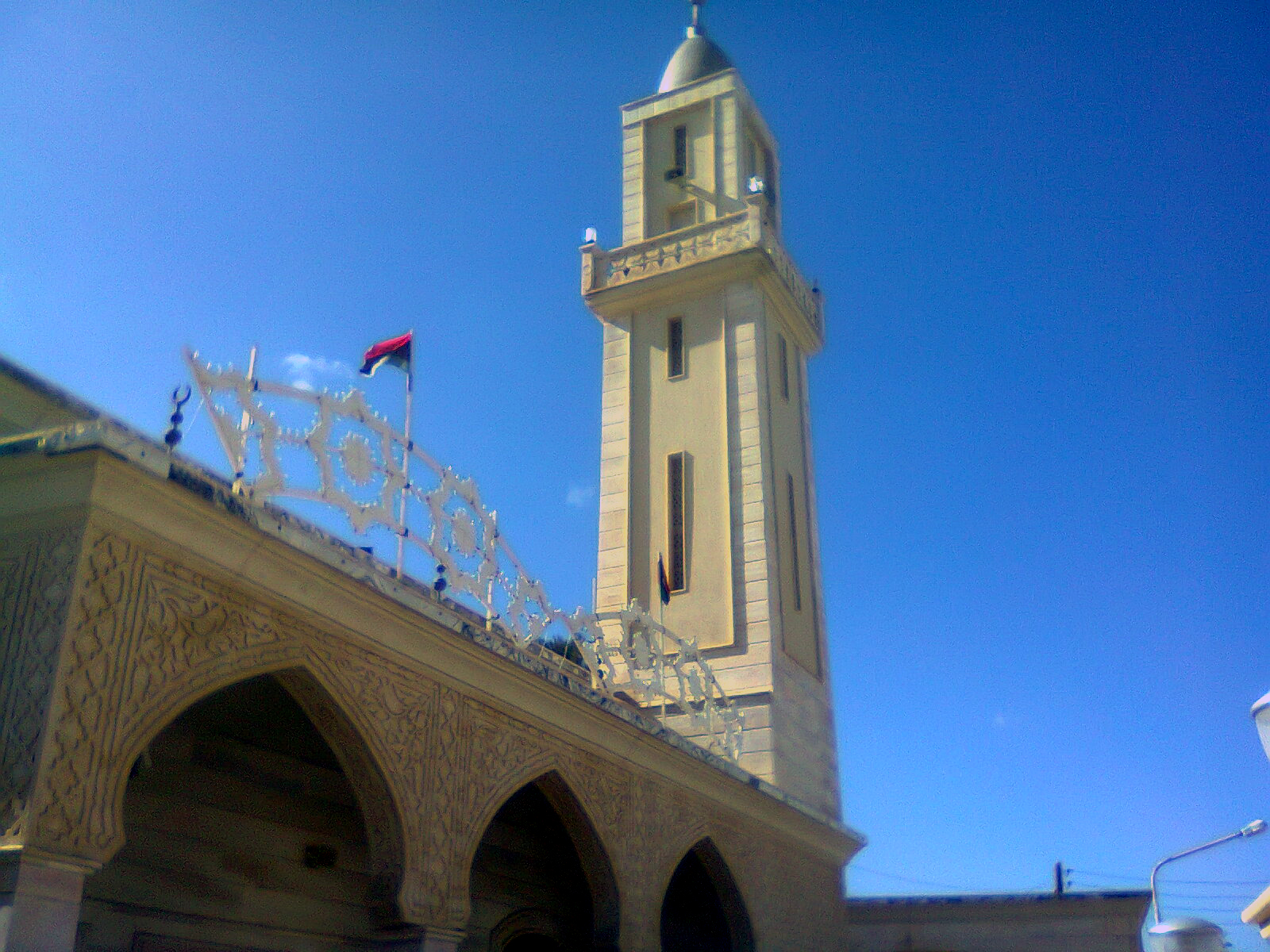 The Hattab Zawiya on Gharayna Street in Tajoura, Tripoli. Within it is buried Muhammad ibn Abdur Rahman al Hattab the father of the better known jurist, and author of Mawahib al Jalil Muhammad ibn Muhammad al Hattab (whose place of burial is disputed and unknown).